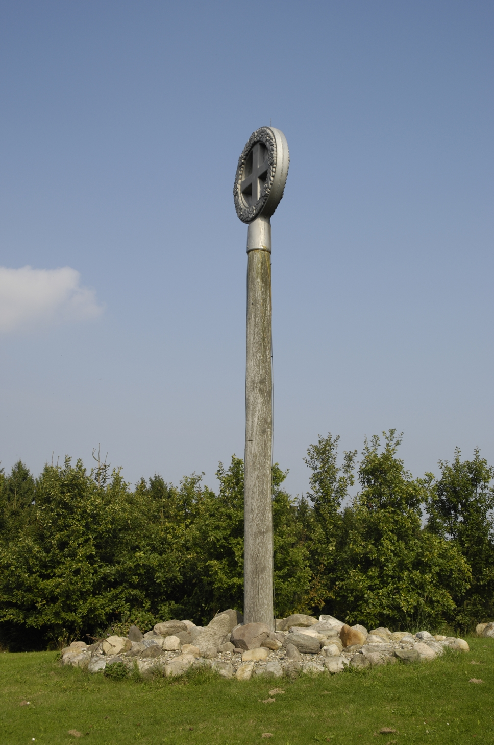 Irminsul reproduction with a sun wheel on the top, erected 1996 in the German municipaliy of Harbarnsen-Irmenseul (near Hildesheim in Lower Saxony)